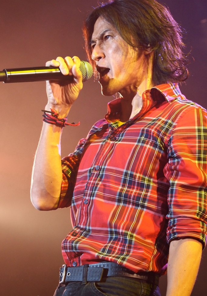 Koshi Inaba performing with B'z on September 30, 2012.